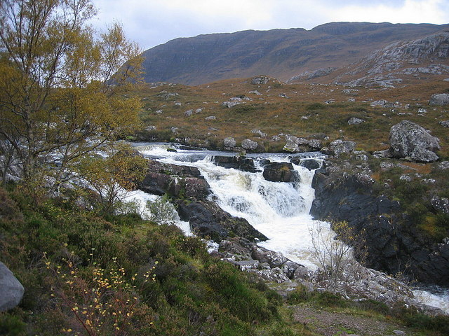 Balgy Falls The Balgy River flows from Loch Damh into Loch Torridon at Balgy.